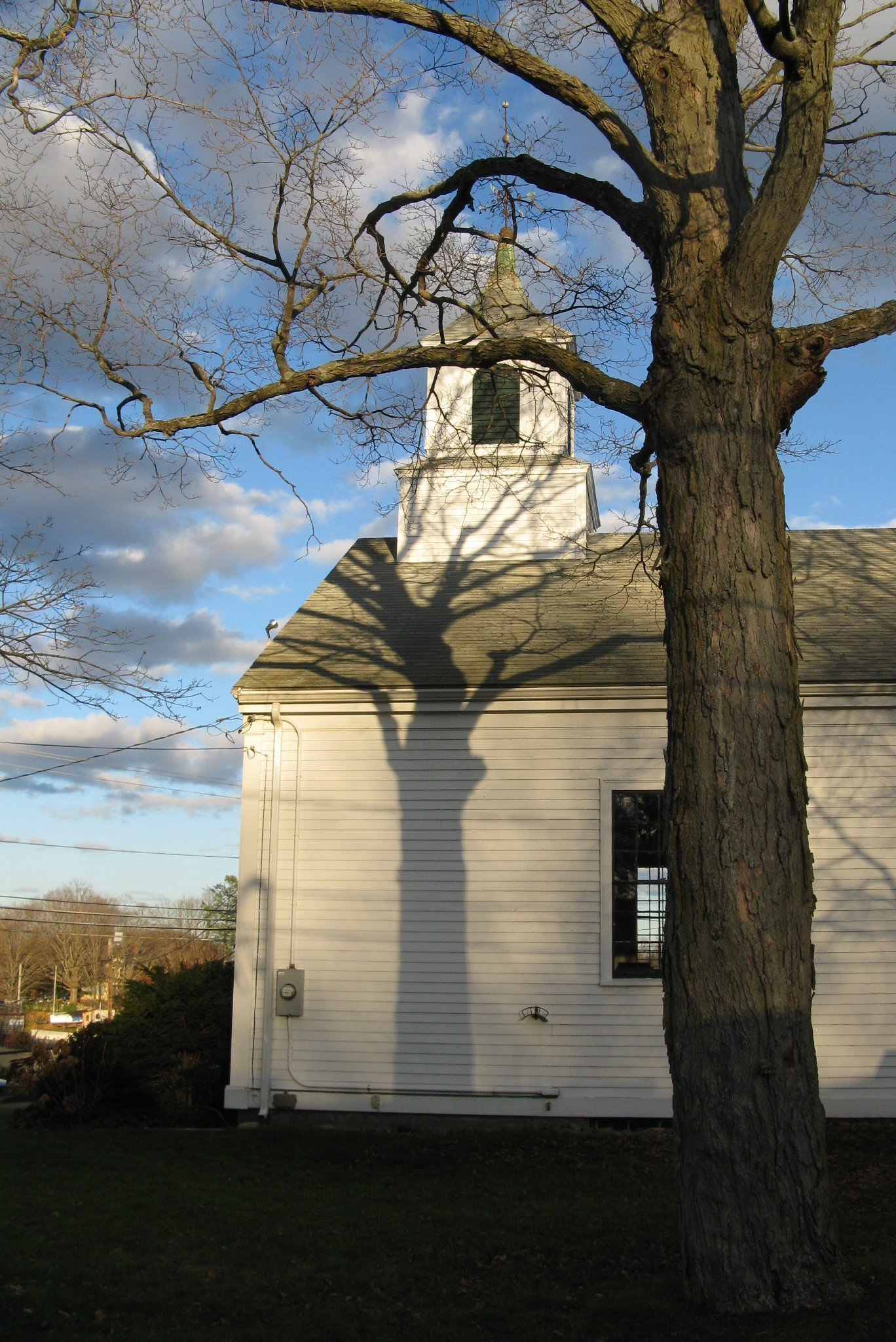 First Universalist Church, Essex Massachusetts